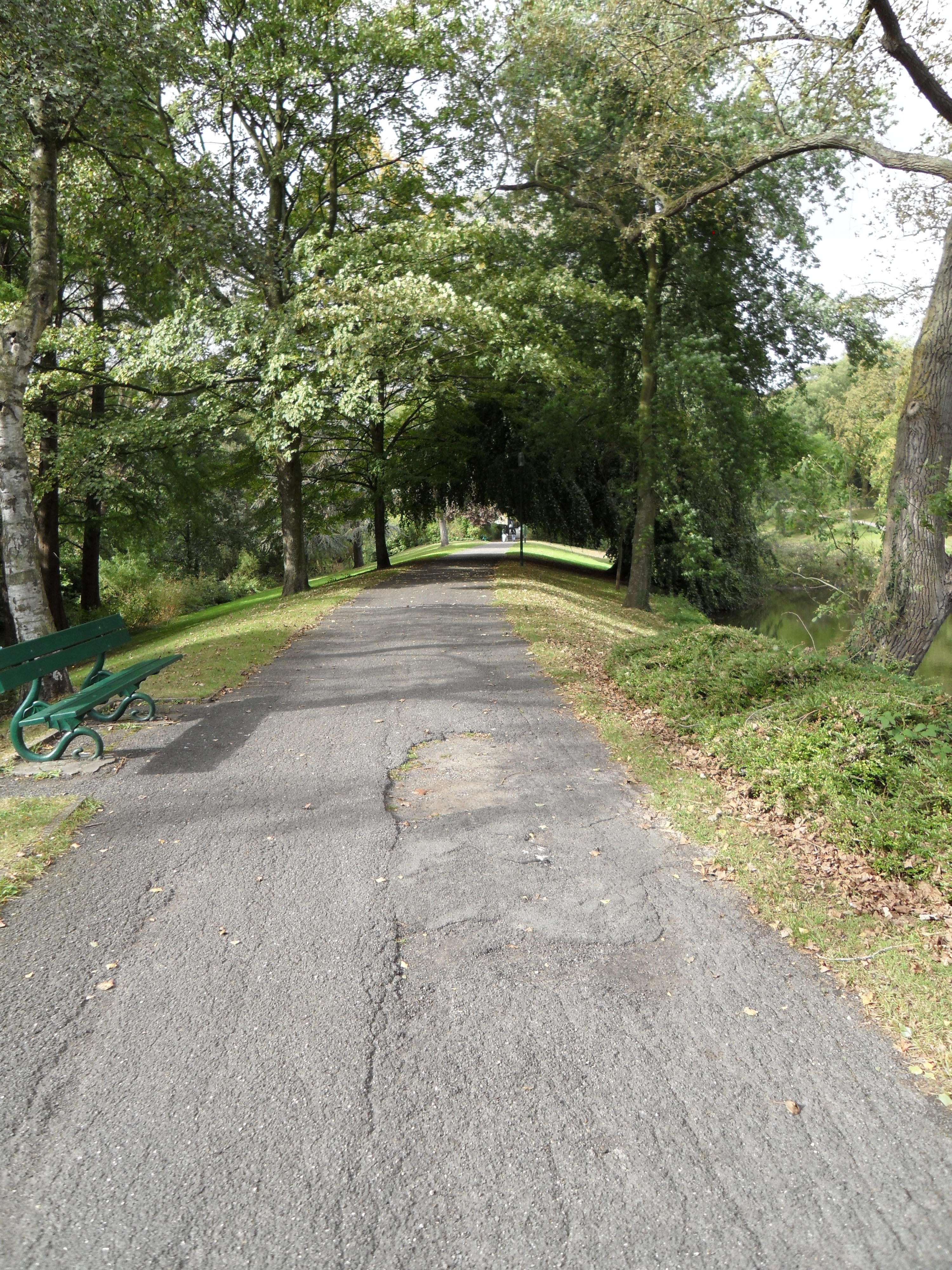 Buiten Boeverievest in Bruges